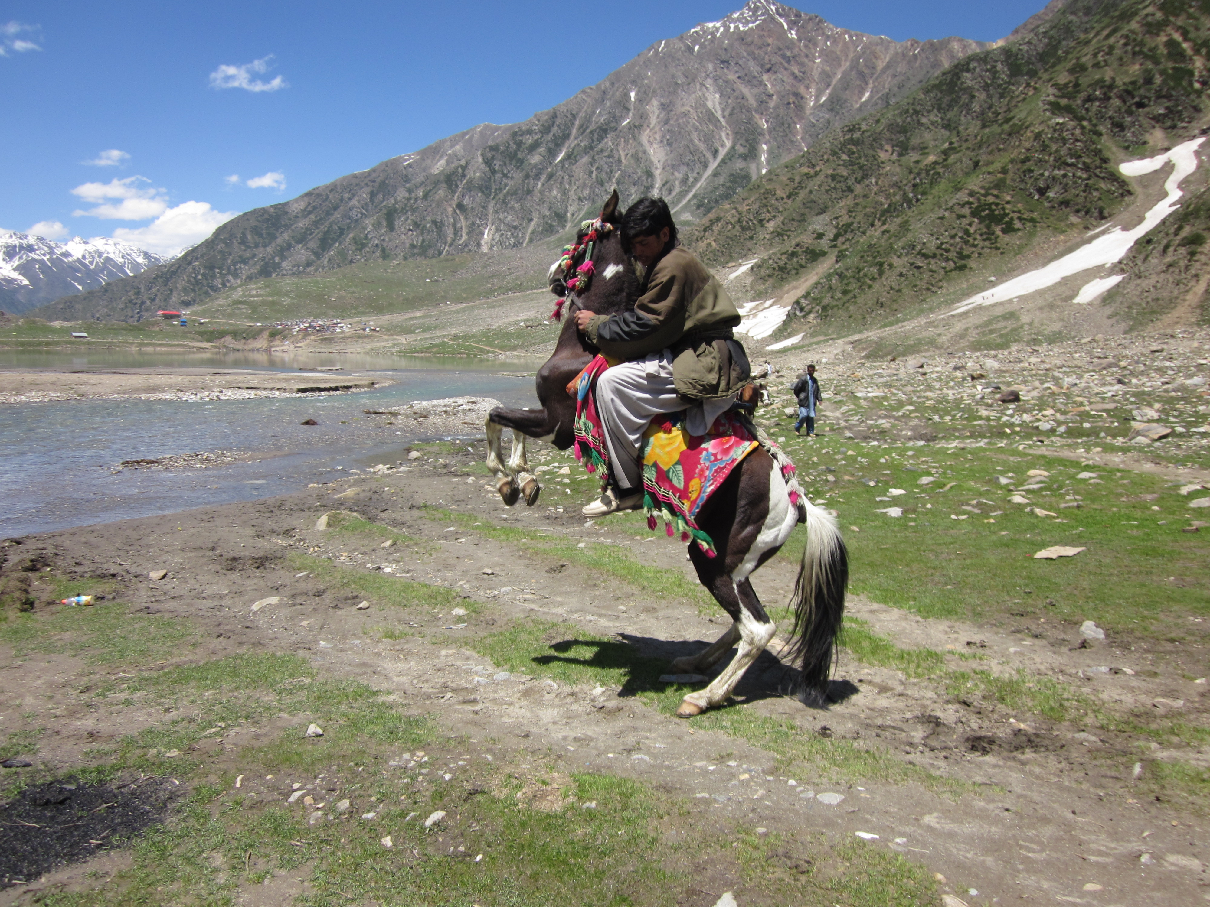 Image taken when i went to jheel saif ul malook Naraan Pakistan . This was amazing to capture when a horse rider made his horse jump in air